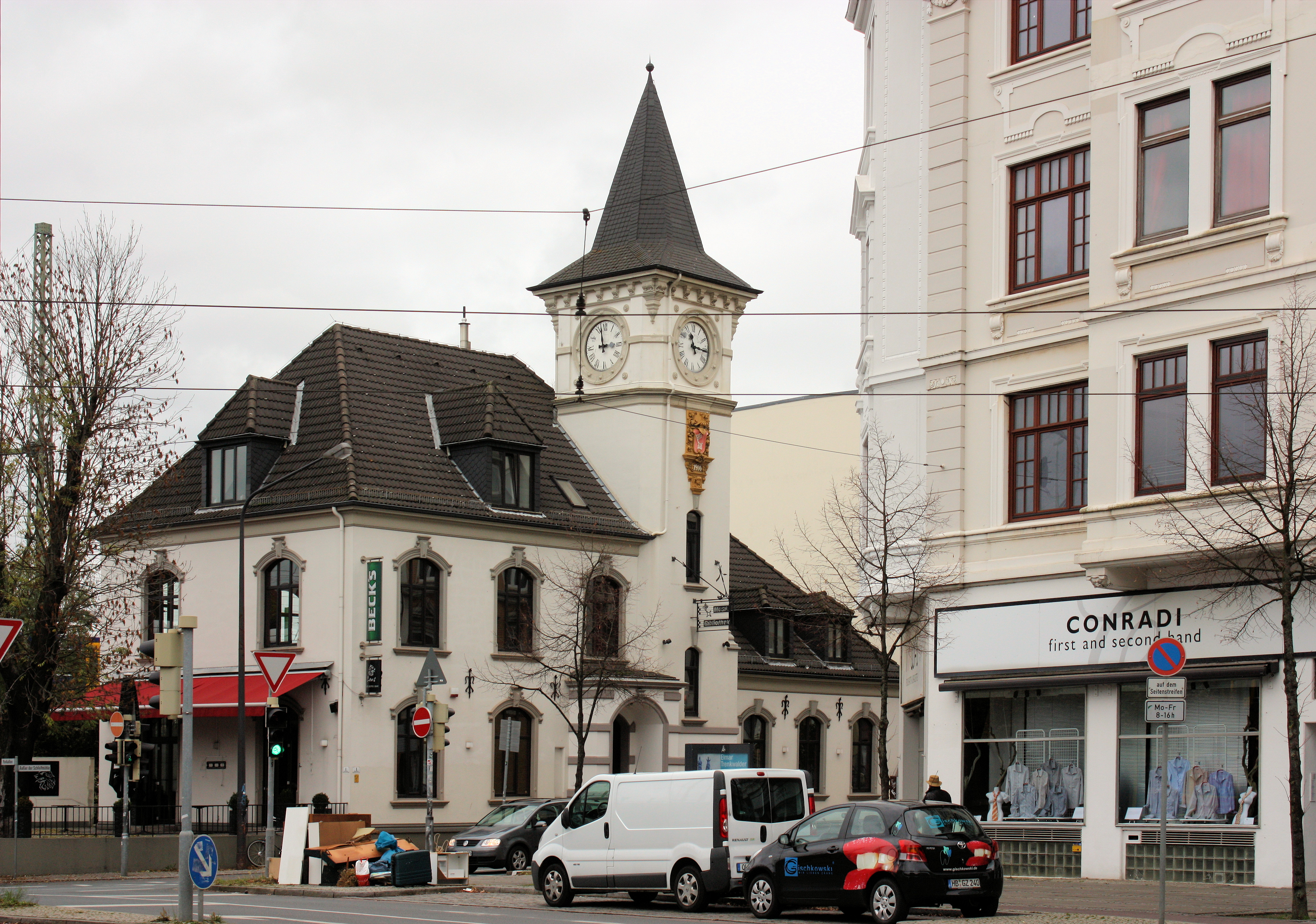 Bremen, crossroads "Außer der Schleifmühle" (street in the background, the second-hand shop on the right is house no.1) x "Parkallee" (to the left, the restaurant is house no.1) x "Am Dobben" (out of sight, right of "Außer der Schleifmühle" no.1) x "Rembertistraße" (rectangular to the right) x "An der Weide" (behind the photographer)